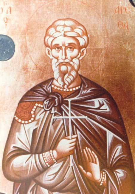 Greek Orthodox portrait of Saint Arethas in Najran